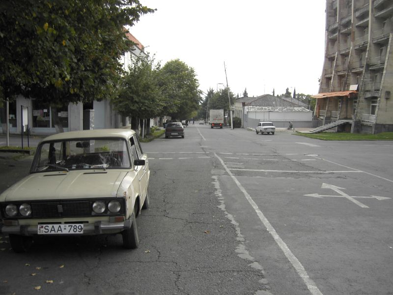 Lagodekhi in kakheti Georgia